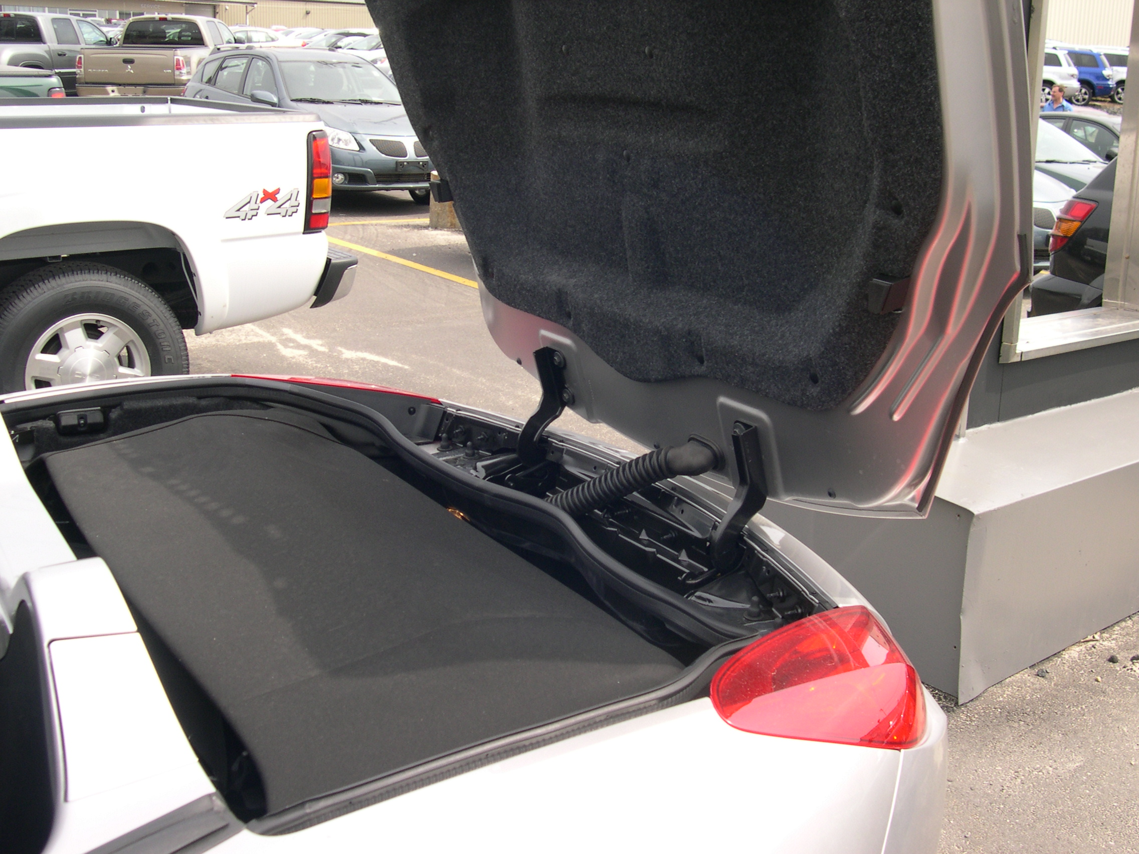 2006 Pontiac Solstice Photo by Stephen Foskett